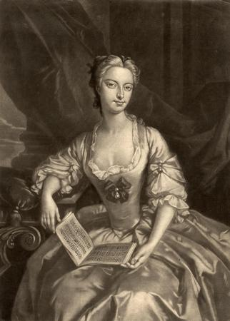 Catherine "Kitty" Clive, British actress.